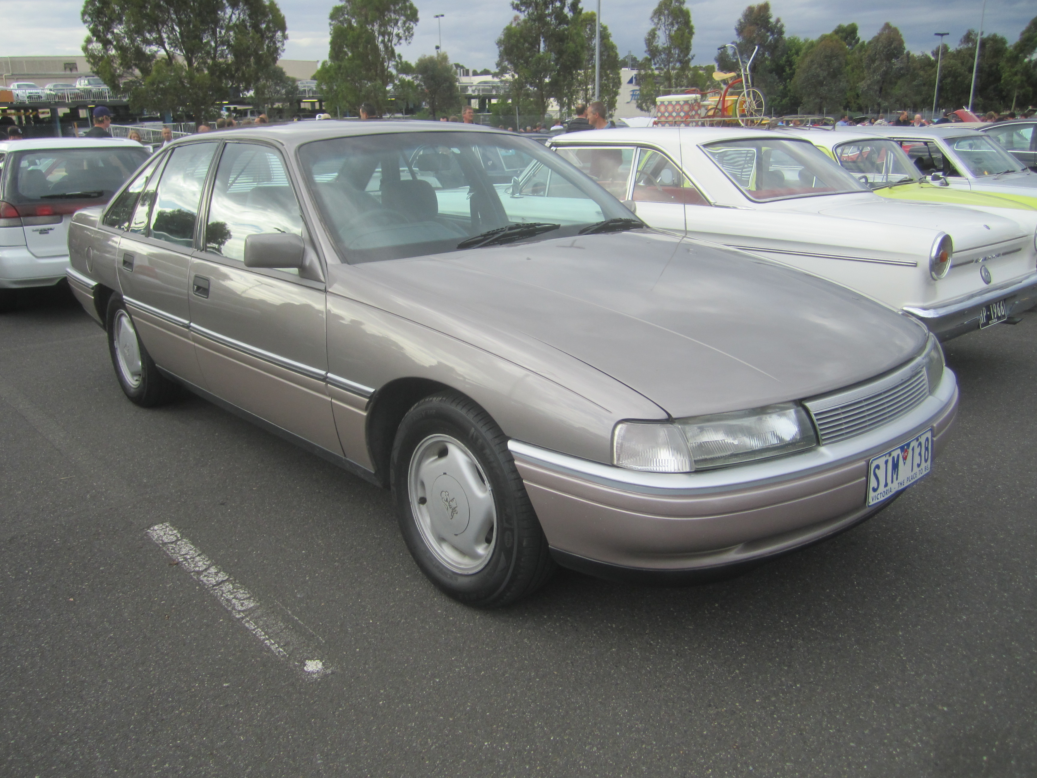 Built from August 1988-Sept 1991.